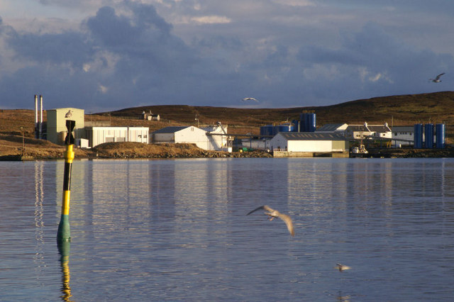 Heogan Fishmeal Factory, Bressay Taken from across Bressay Sound at the Shetland Catch fish factory.